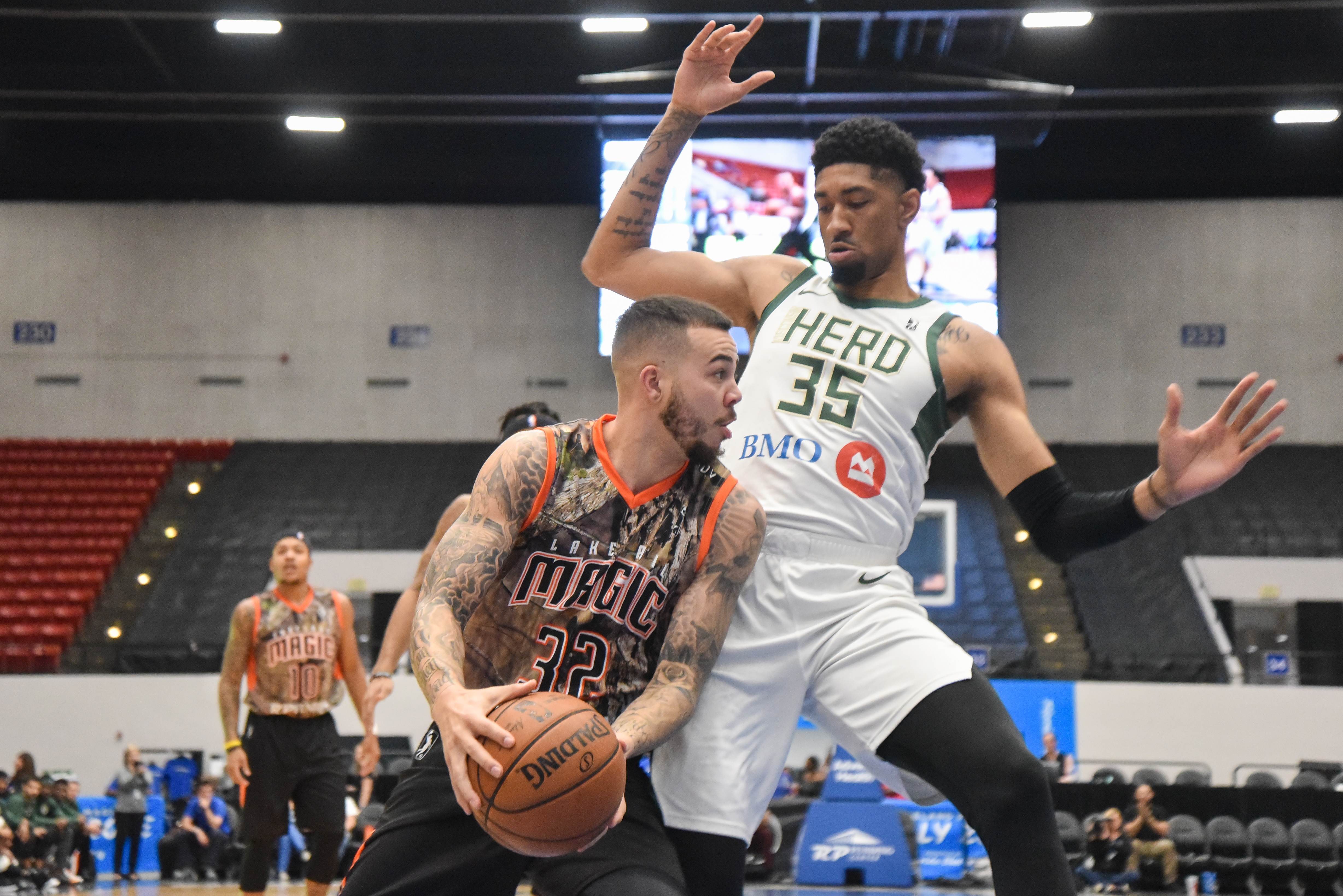 Lakeland Magic v Wisconsin Herd. RP Funding Center. Lakeland, Fla. Jan. 6, 2019. (Photo by Tom Hagerty.)